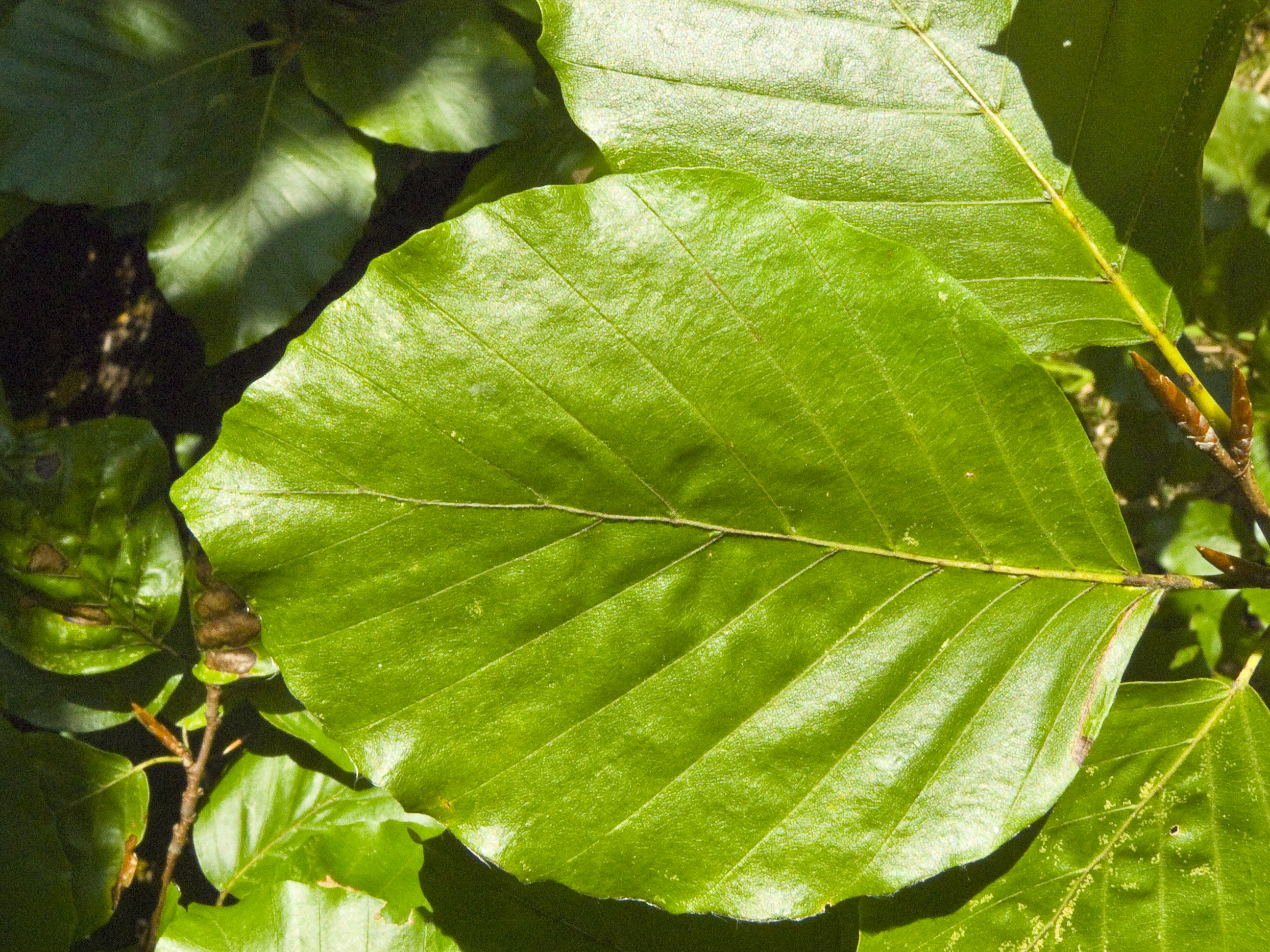 Leaf of the European Beech (Fagus sylvatica) in the New Botanical Garden Marburg, Hesse, Germany